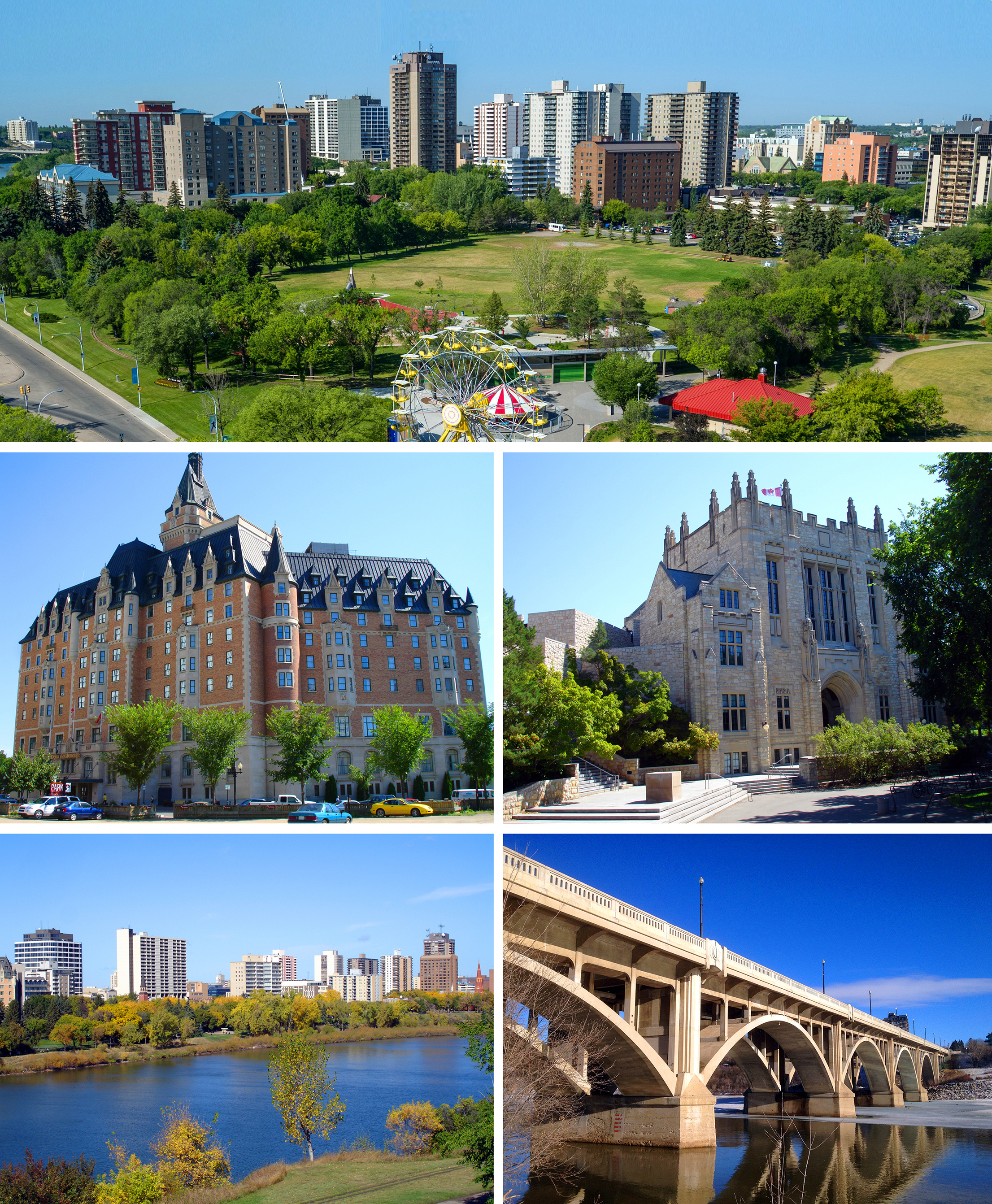 This is a montage of Saskatoon for 2020